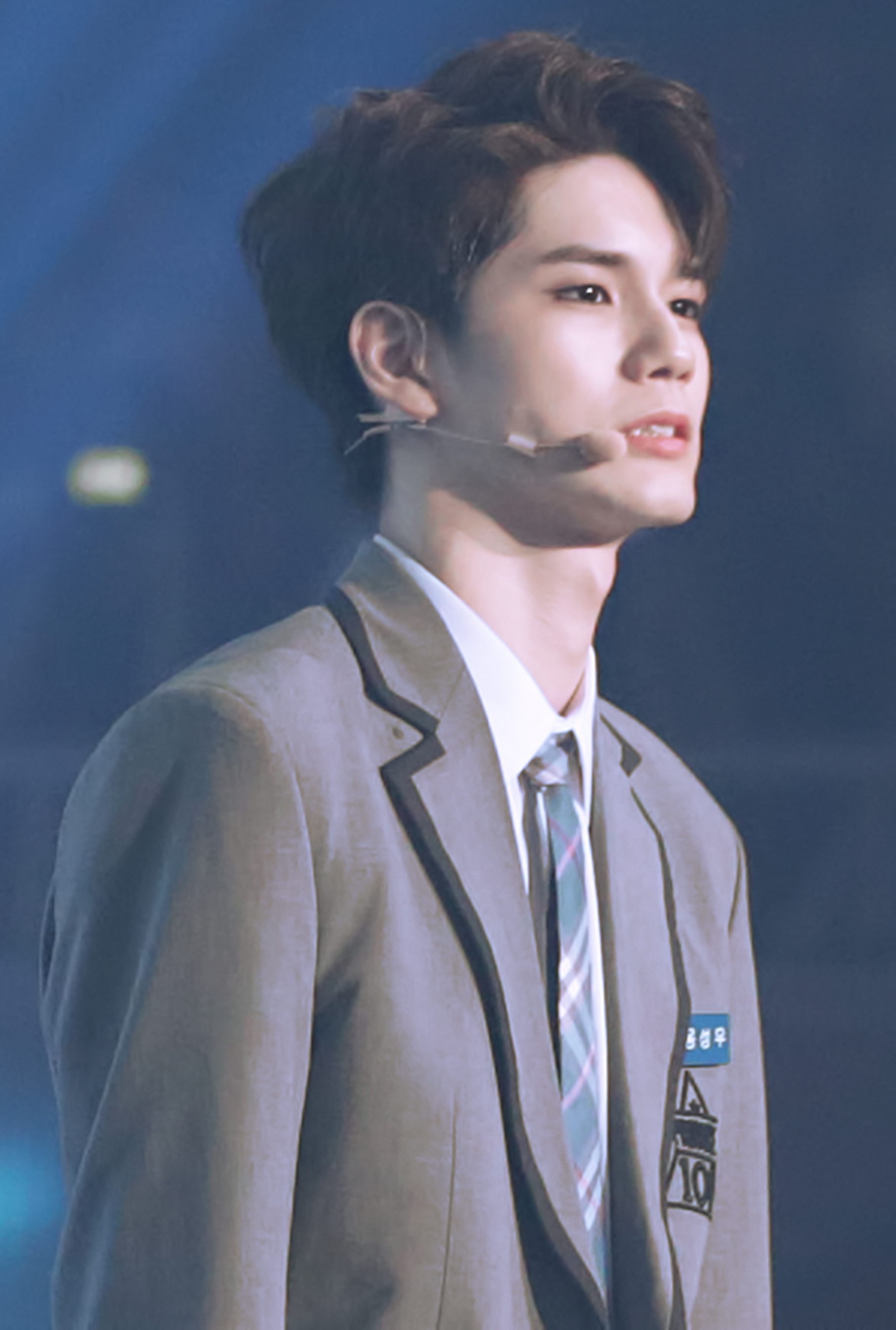 Ong Seong-woo during the Produce101 Concert on July 1, 2017.